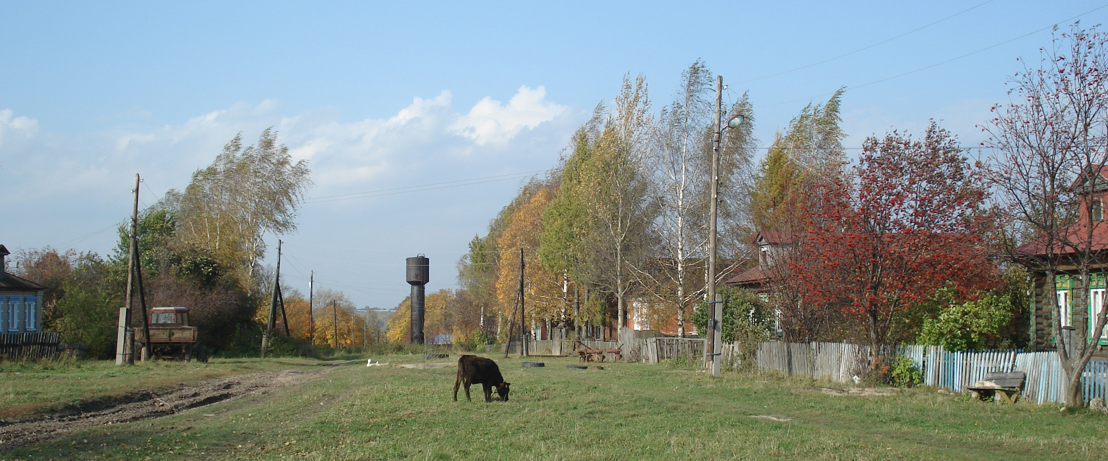 The village of Koshkino. Nizhegorodskaya oblast. Russia.